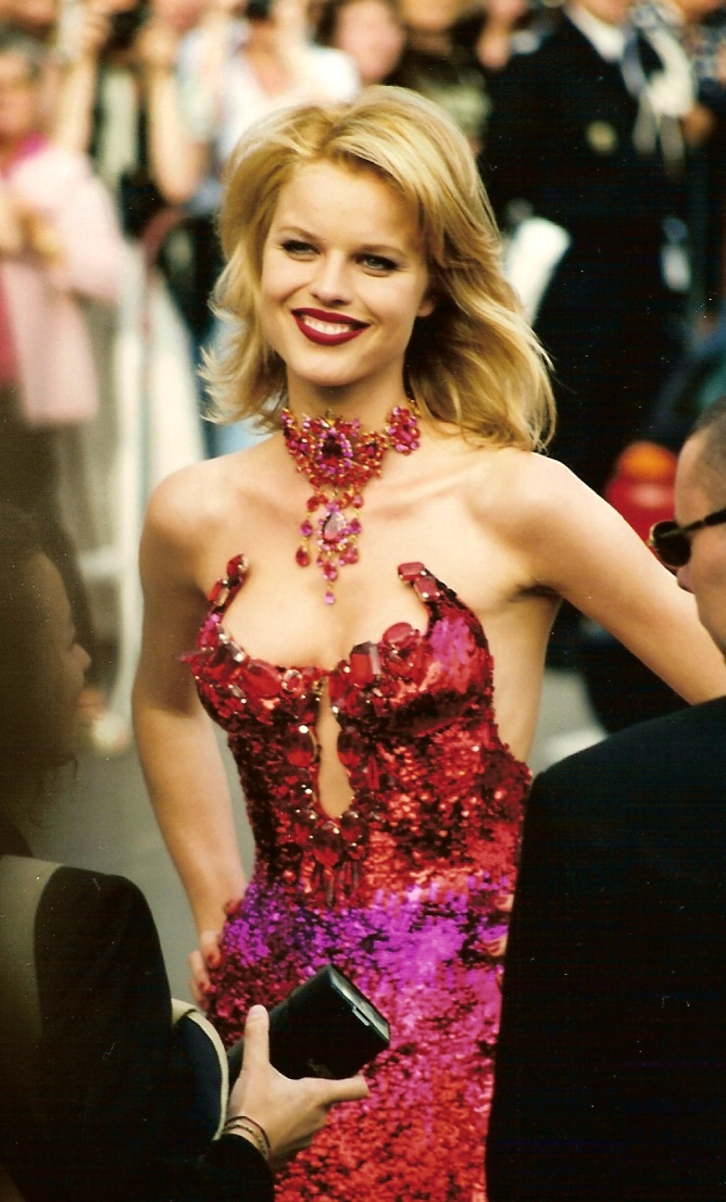 Supermodel Eva Herzigova